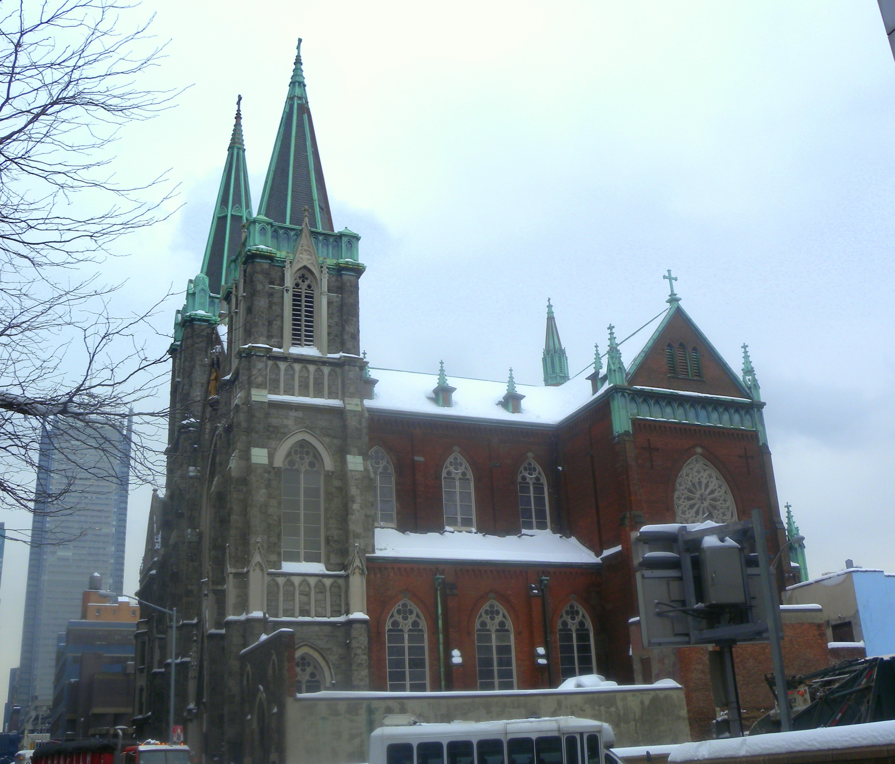 Looking east from 41st St and across Cardinal Stepanic Place at Saints Cyril, Methodius and Raphel Catholic Church on a cloudy day after snow. ZIP 10018.